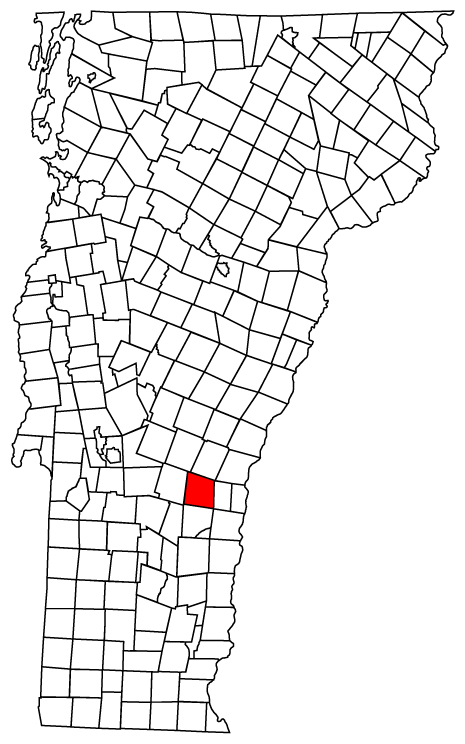 Description: Map of Vermont towns with Reading highlighted Source: Map created by Jared C. Benedict on 26 March 2004. Copyright: © Jared C. Benedict.